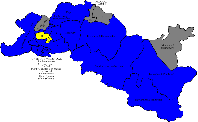 A map of the results of the 2008 Tunbridge Wells Council election. Colour legend by wards won: Conservative party Liberal Democrats Wards in grey were not contested in 2008.